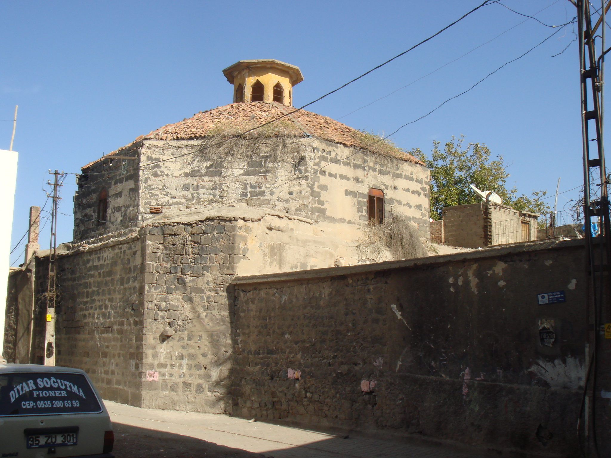 Bahram Pasha Public Bath, Diyarbakır, Diyarbakır Province, Turkey Kurdî: Hemama Behram Paşa, Amed, Tirkiye, 2008.